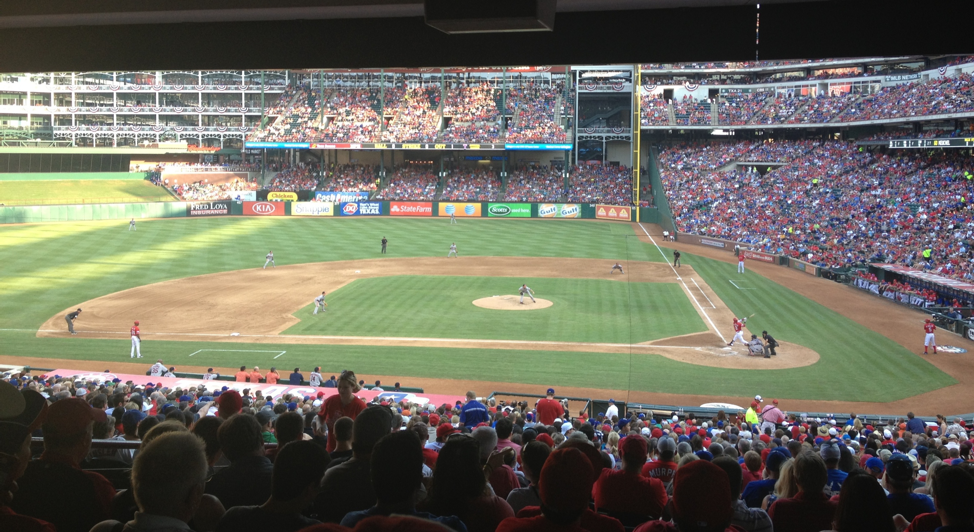 A game of the Lone Star Series, a Major League Baseball rivalry of the American League West Division between the Houston Astros and Texas Rangers at Globe Life Park in Arlington